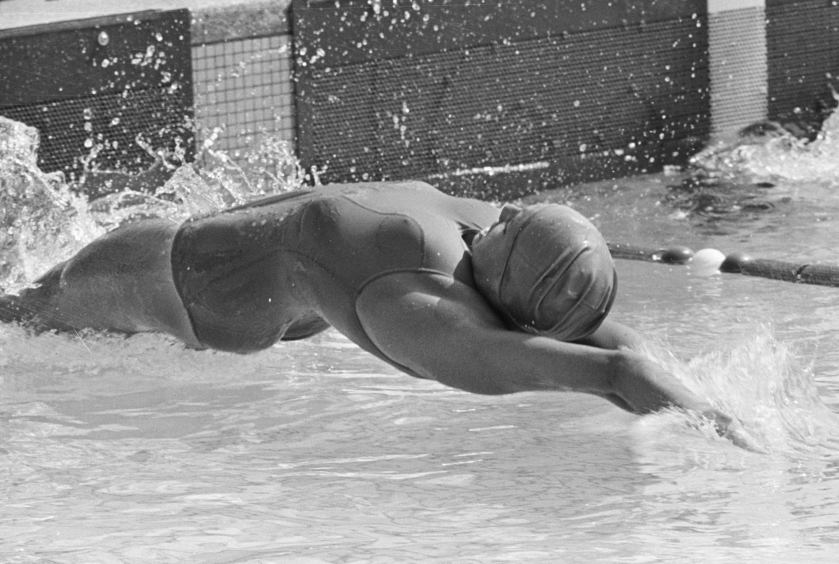 Christine Caron